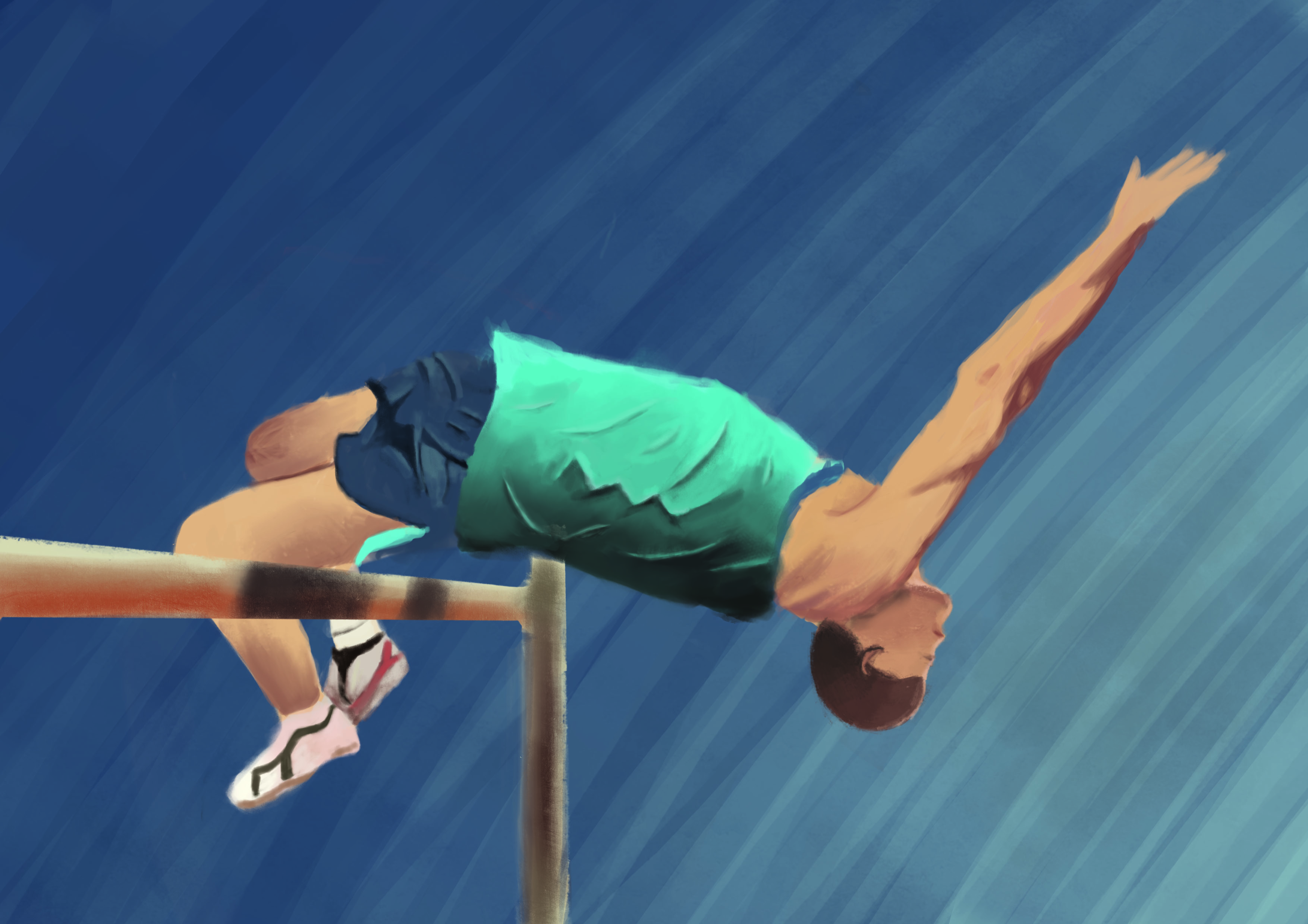 A painting of a man doing Fosbury Flop.